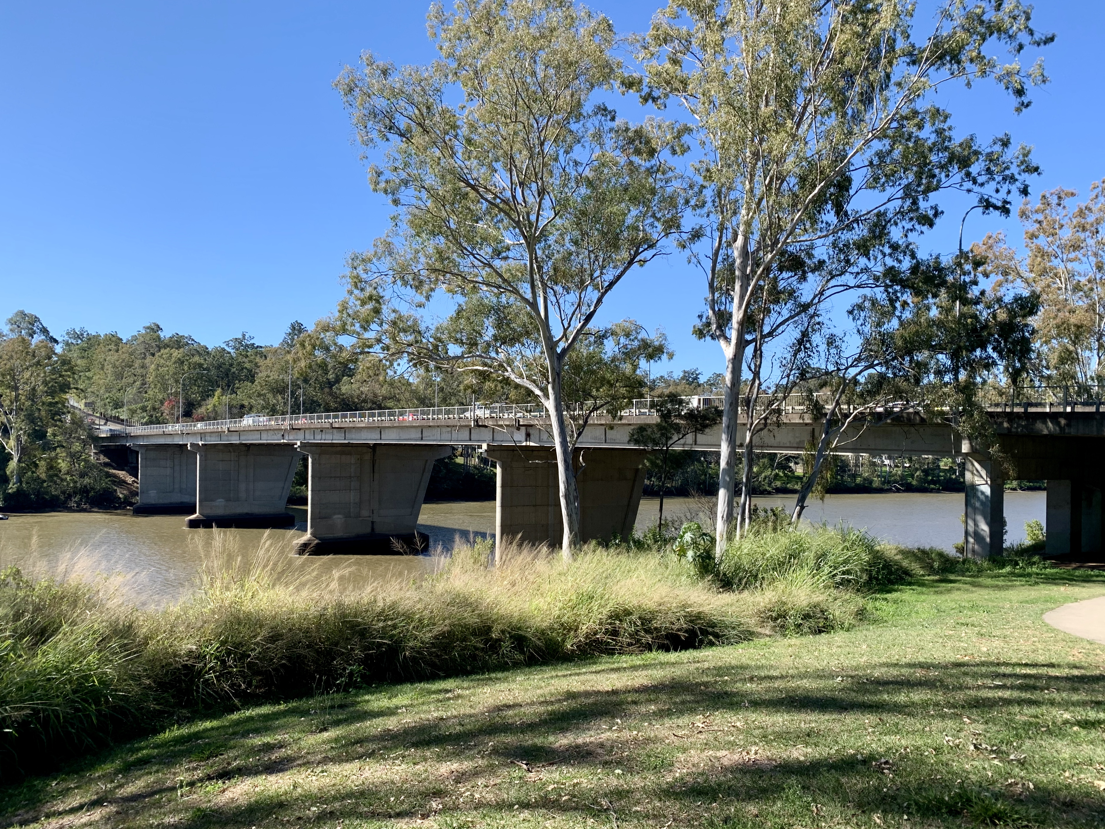 Centenary Bridge, Brisbane, 2020